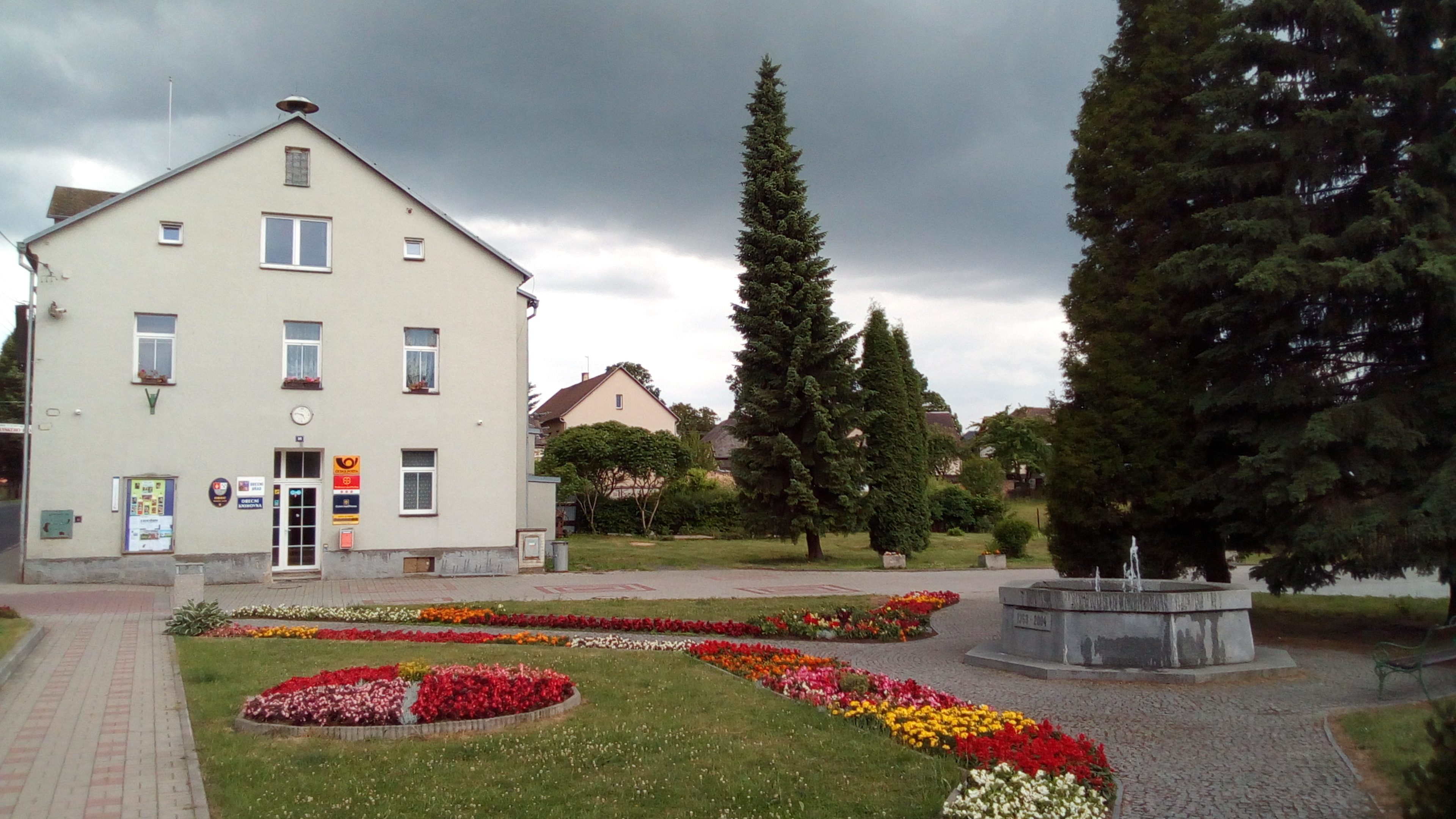 Municipality of Božičany (2017)